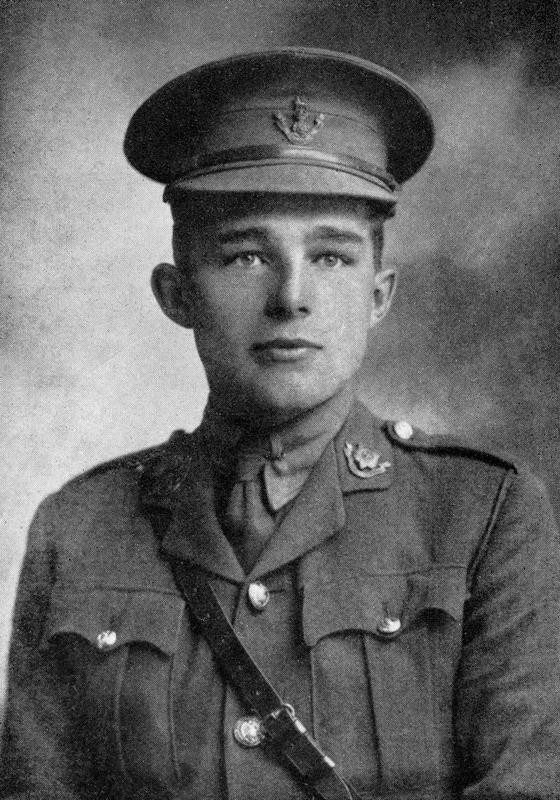 Portrait of Thomas Orde Wilkinson, VC